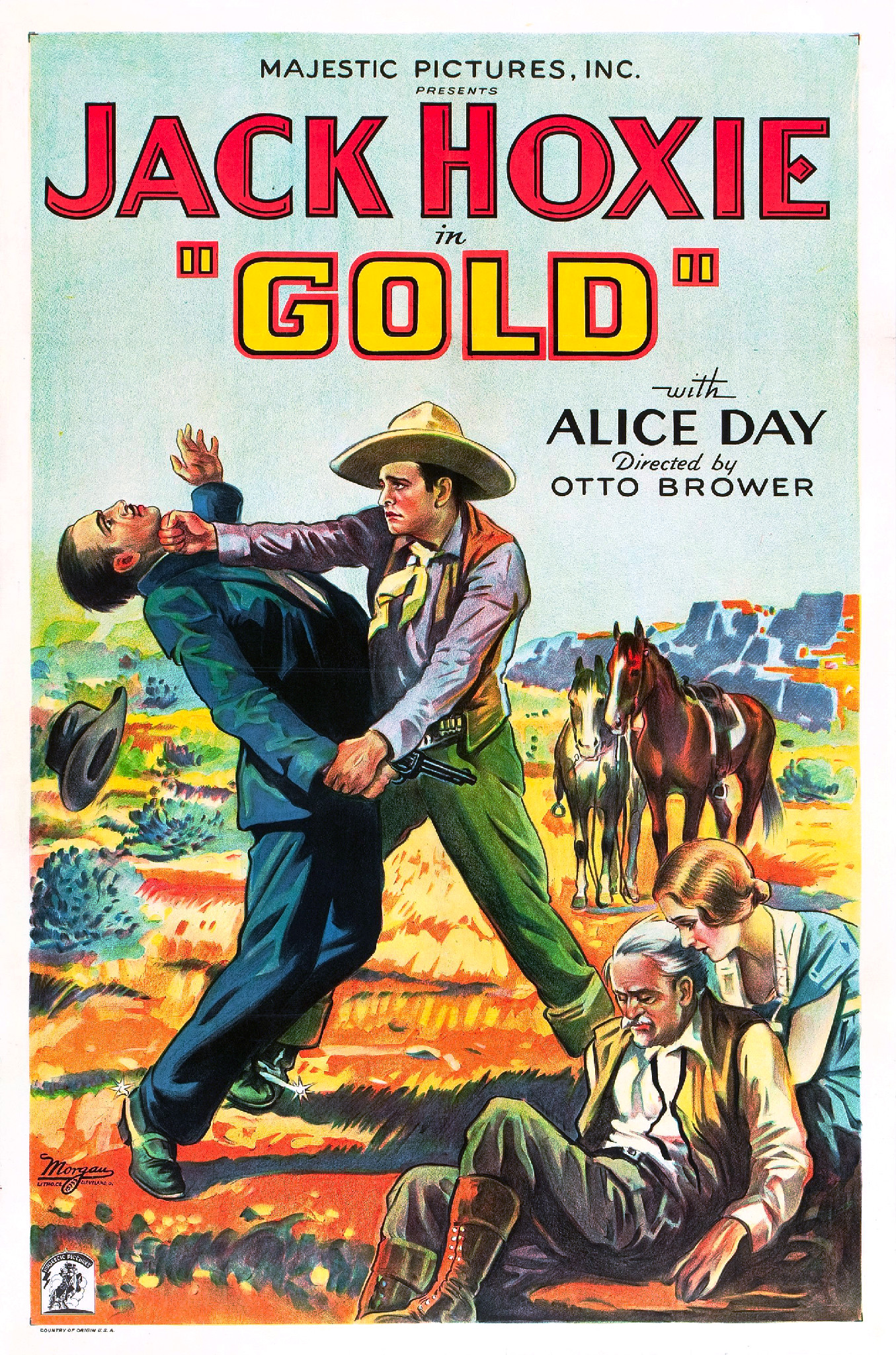 Poster for the 1932 film Gold. There are no copyright marks. At bottom left is Country of origin USA.